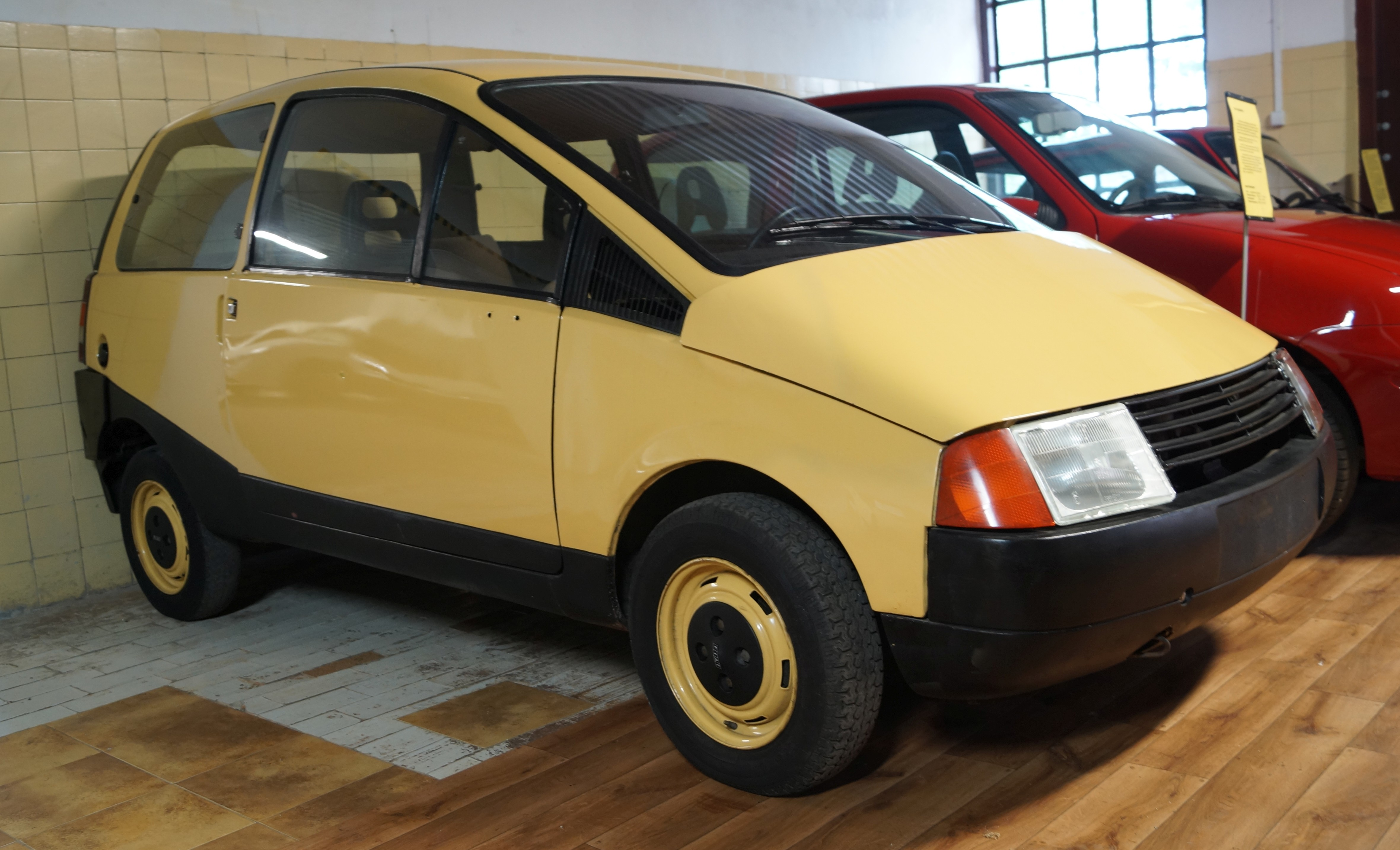 The making of this document was supported by Wikimedia Polska Association, within Wikigrant no. WG 2016-18. English | polski | +/− FSM Beskid 106 w Muzeum w Chlewiskach